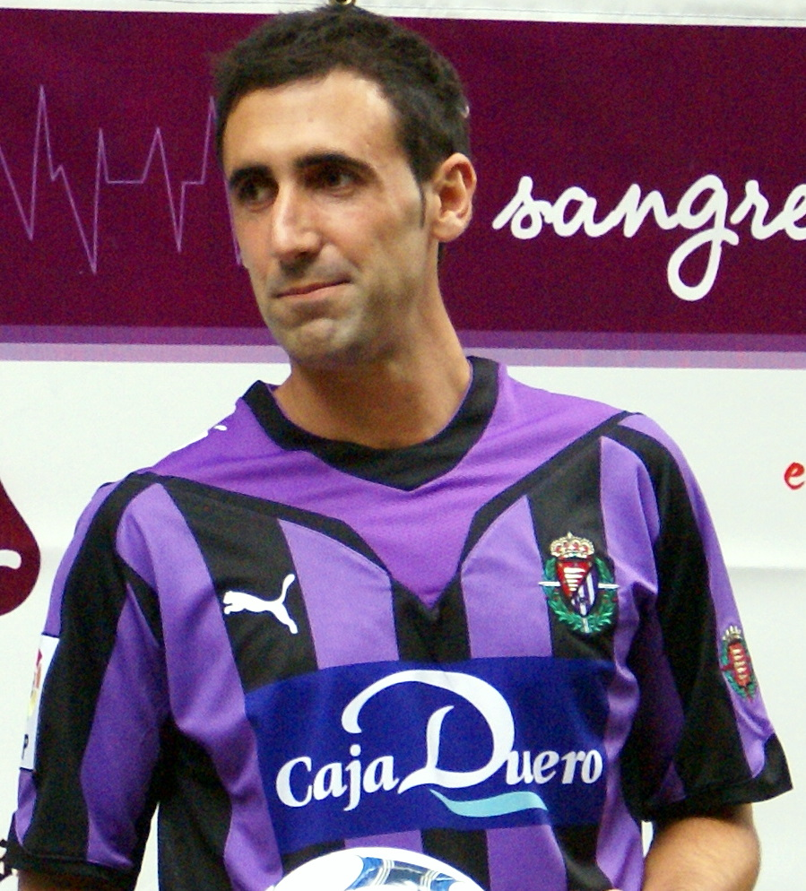 Luis Prieto Zalbidegoitia during Puma show for new shirts of Real Valladolid in Valladolid.